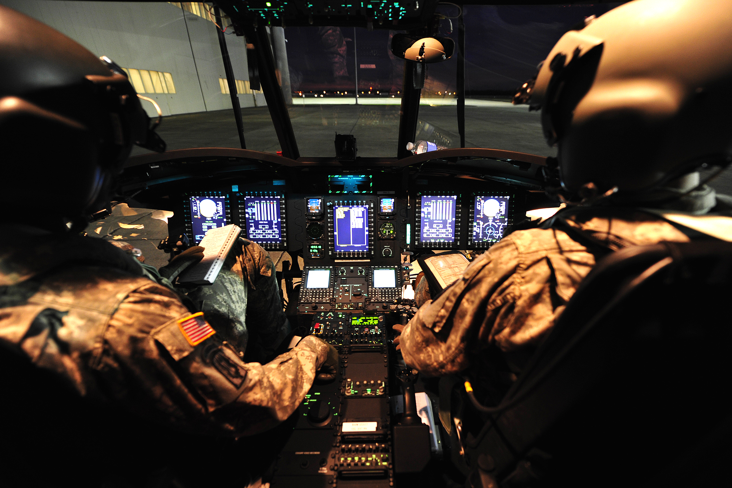 Members of the Georgia Army National Guard prepare their CH-47 Chinook heavy-lift helicopter for a flight from Joint Base McGuire-Dix-Lakehurst, N.J. to Staten Island, N.Y. at Joint Base McGuire-Dix-Lakehurst, N.J., Nov. 3, 2012. The helicopter crew is supporting members of the National Search and Rescue Task Force, which will conduct house-to-house searches in Staten Island, N.Y.